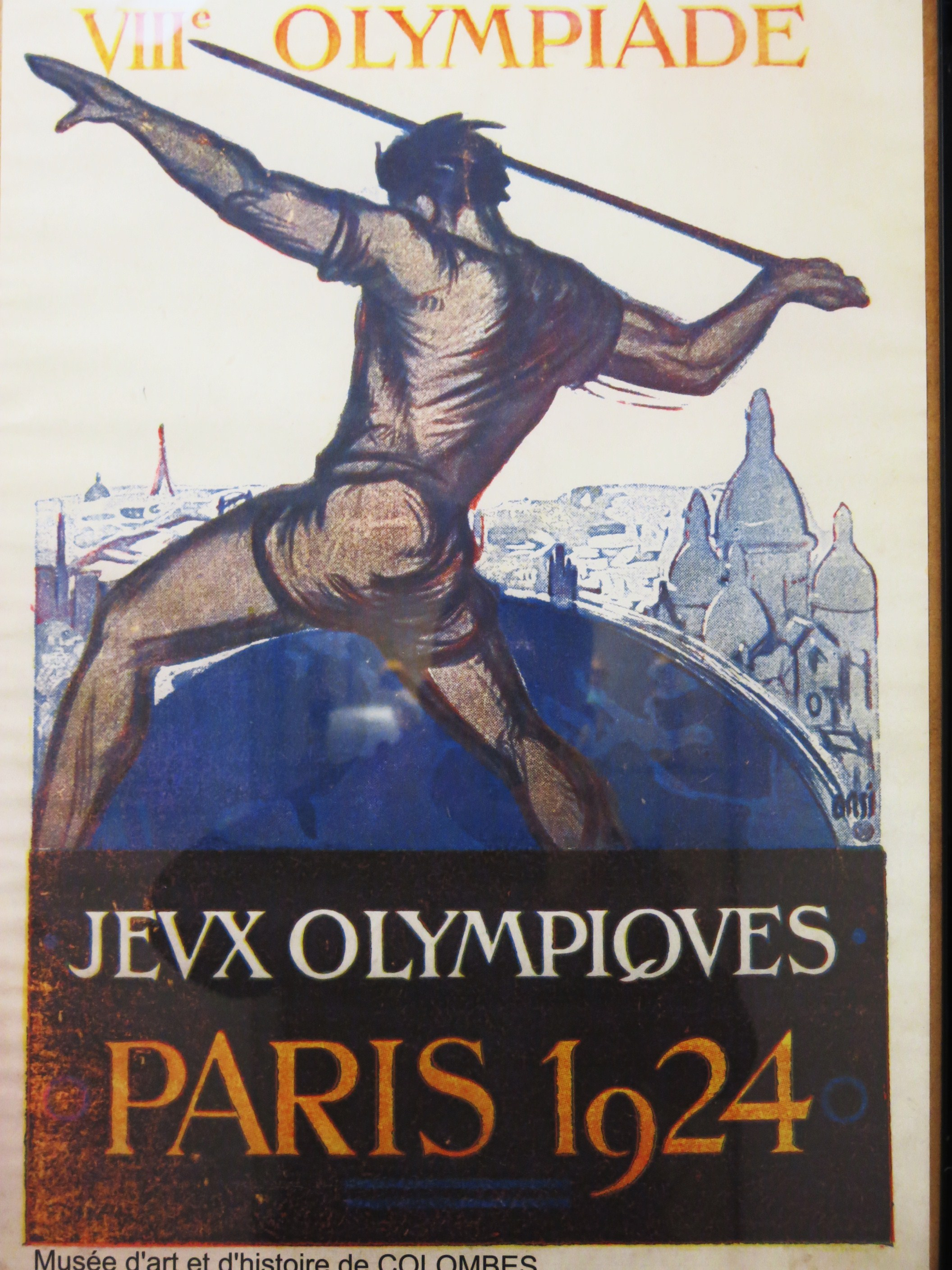 Poster of the Olympic Games of Paris in 1924 in the Municipal Museum of Art and History in Colombes (Hauts-de-Seine, France).